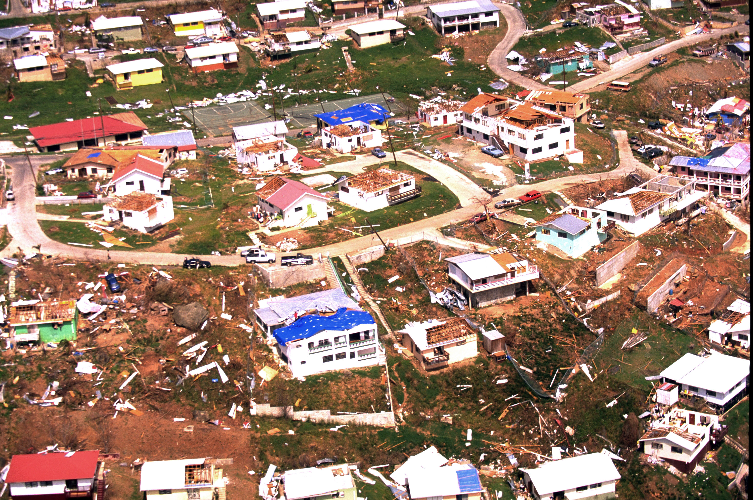 Hurricane Marilyn, VI, September 25, 1995 - An aerial view of the devastation caused by the hurricane. Eight people died and more than $2 billion in property damage was caused by Hurricane Marilyn. FEMA News Photo